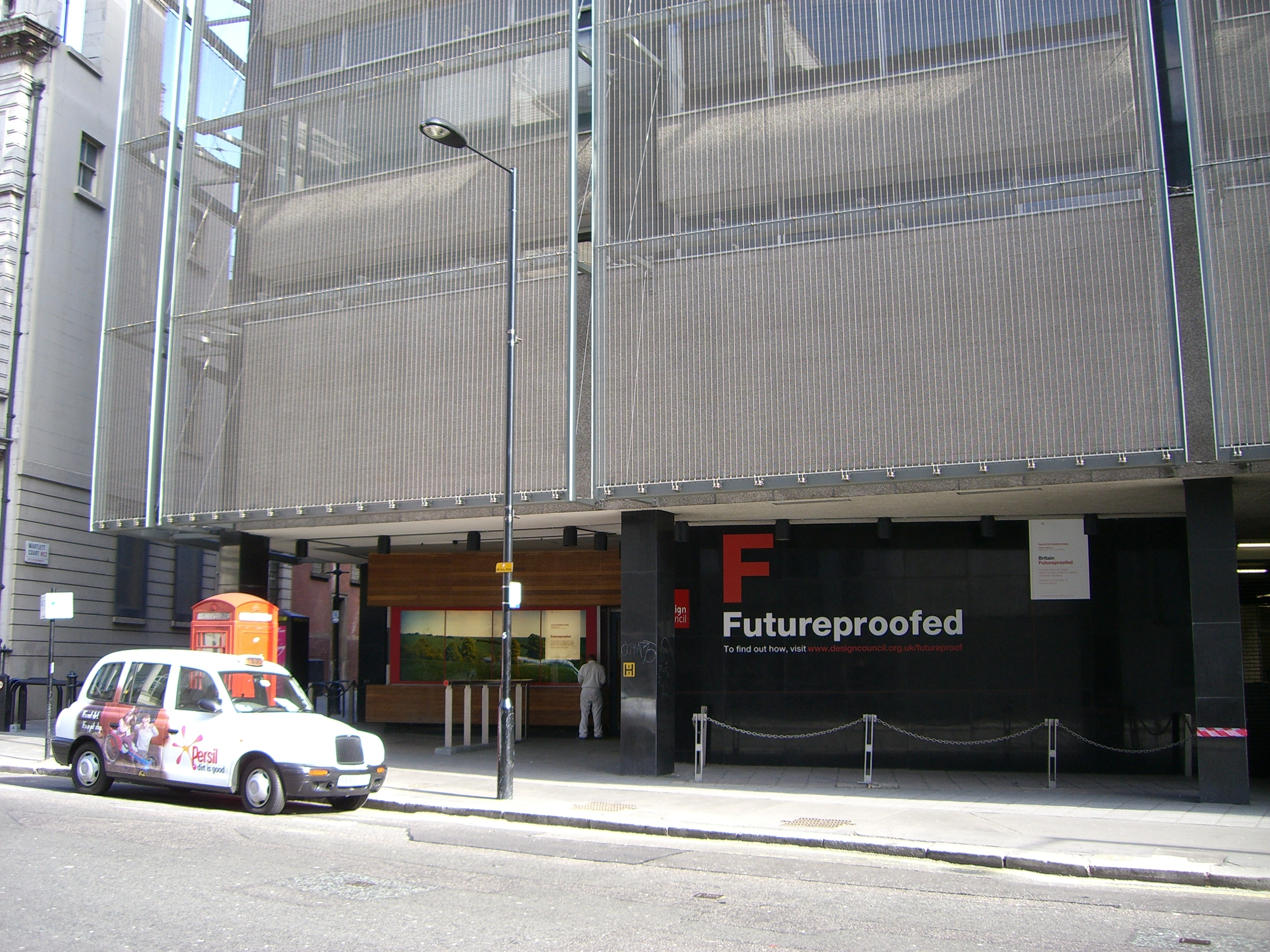 Design Council 34 Bow Street, London WC2E 7DL Photo taken by User:Edward on 19 March 2006 with a Casio EX-S600.